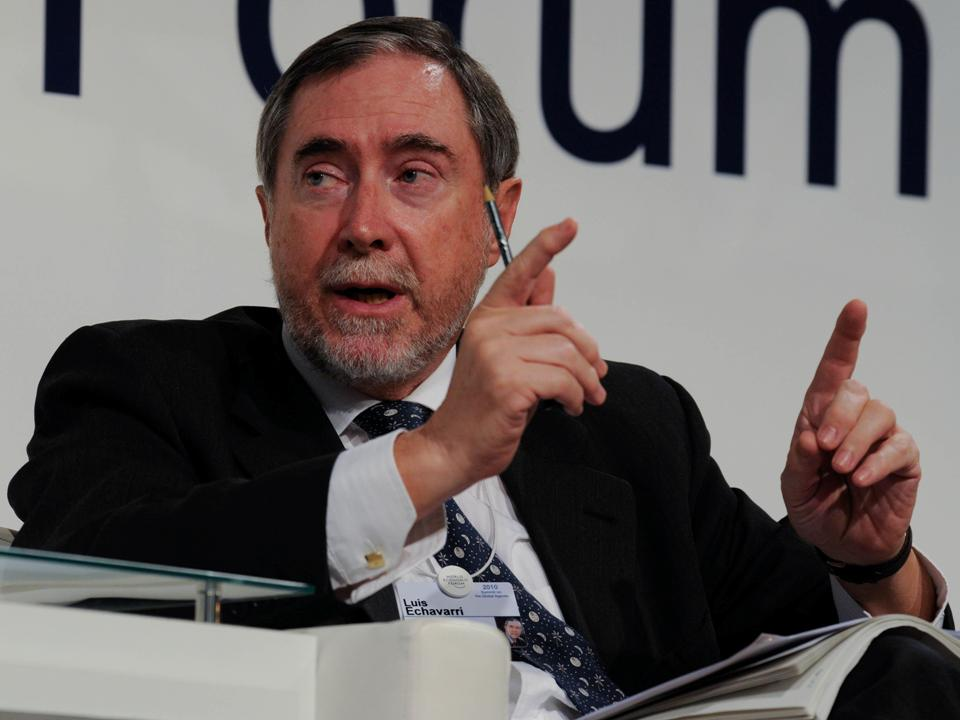 uis Echavarri, Director-General, OECD Nuclear Energy Agency, France; Global Agenda Council on Energy Security speaks on a panel at the World Economic Forum's Open Forum 2010 held in Dubai